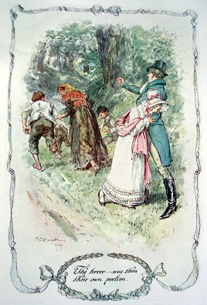 Colour illustration of a 1909 edition of Emma (Jane Austen's novel), by C. E. Brock (died 1938)